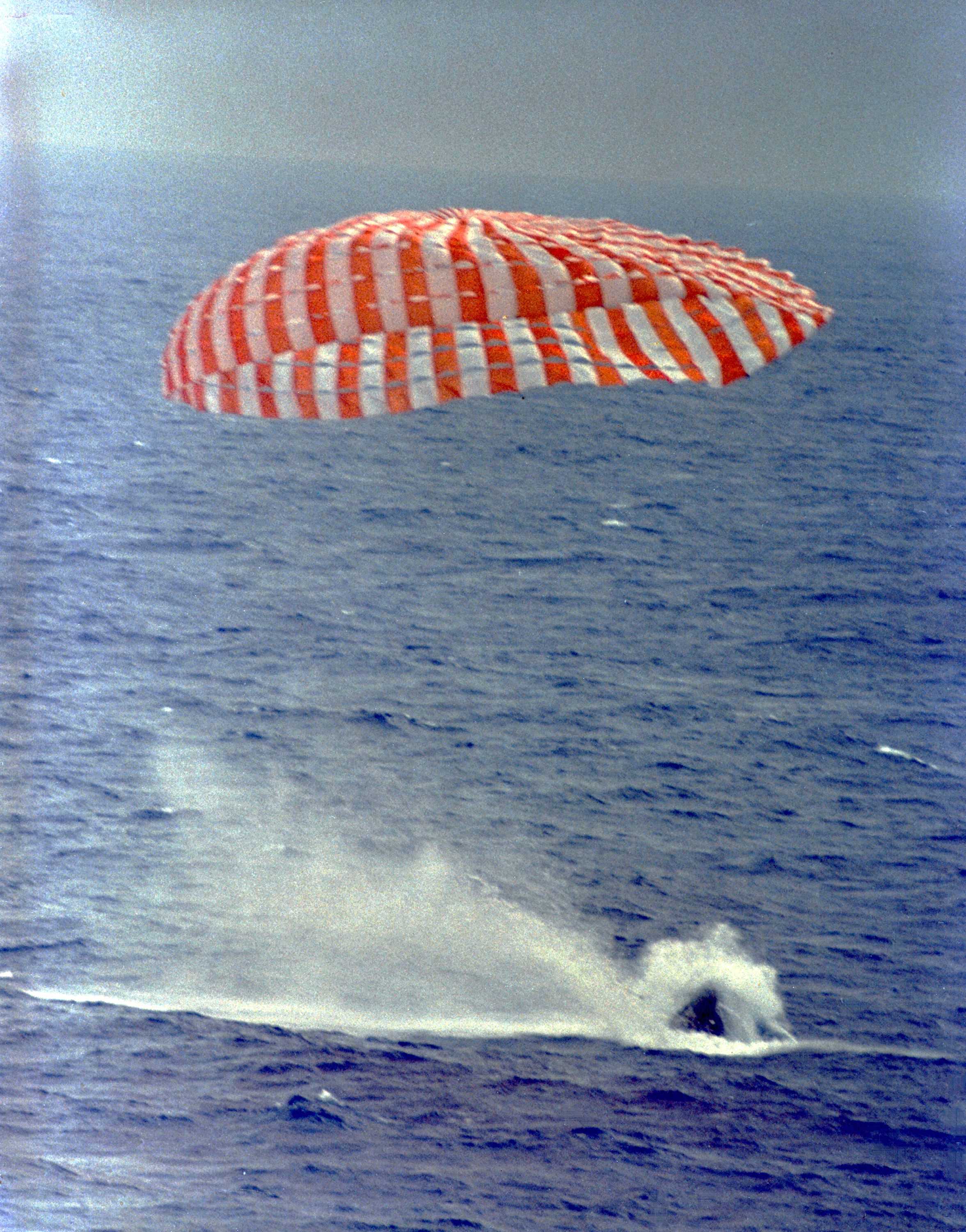 Splashdown of Gemini 9A carrying astronauts Eugene Cernan and Thomas Stafford at 9:00 a.m., June 6, 1966.